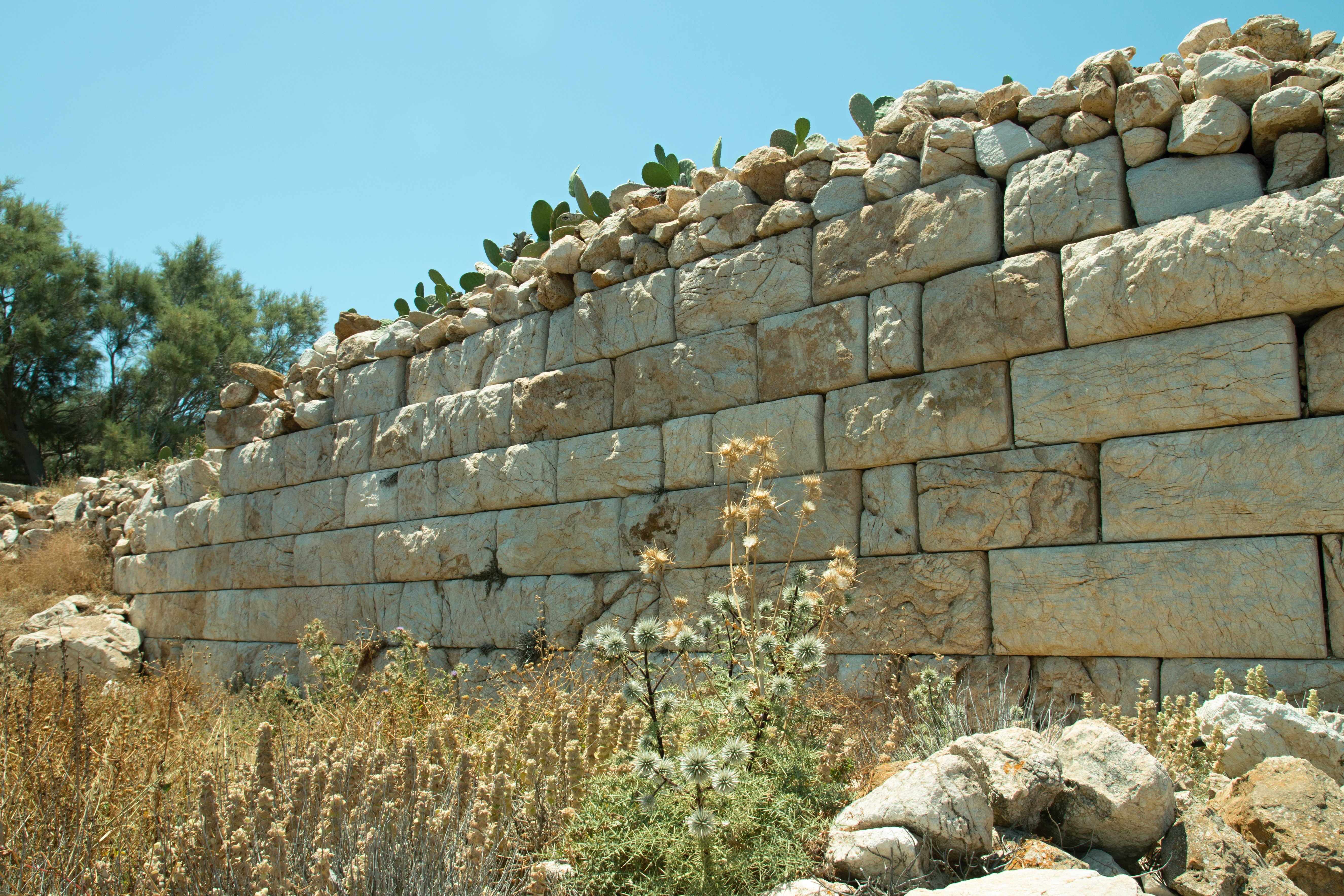 Peribolos (outer wall) of the sacred area of the Temple of Apollo Aigletes, northeast of the Zoodochos Pigi monastery. Anafi.